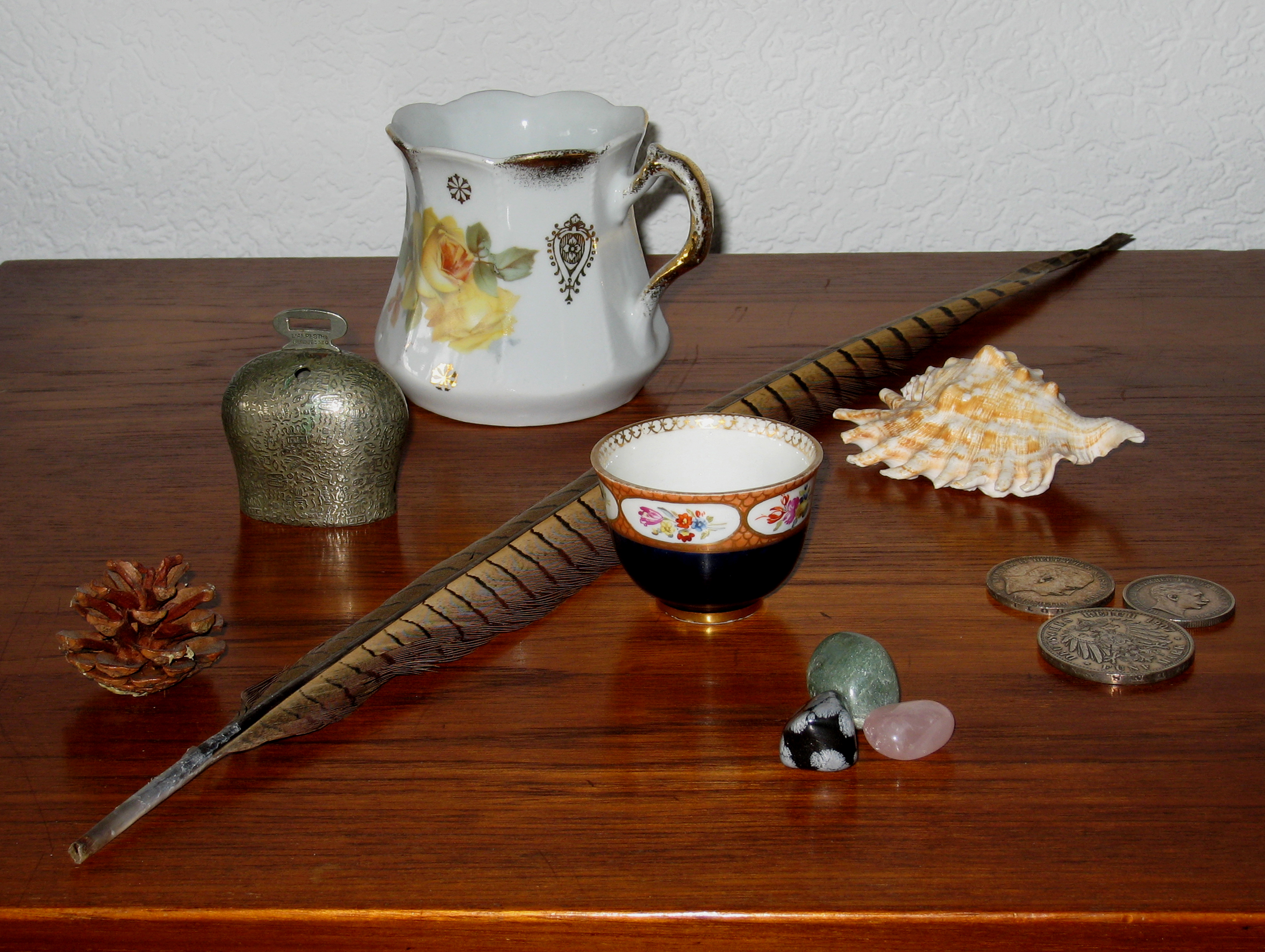 A collection of tiny pretty pieces - kind of bric-a-brac